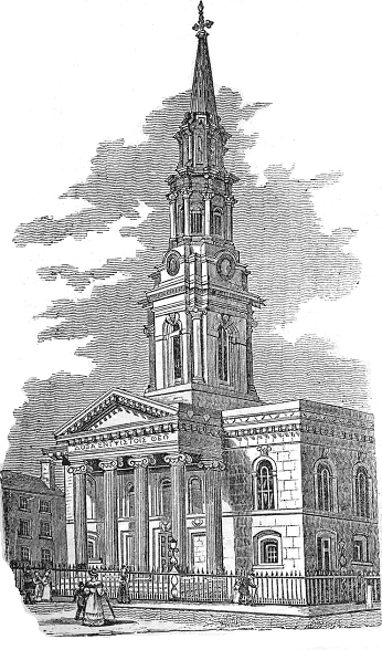 Engraving of St. George's Church, Dublin